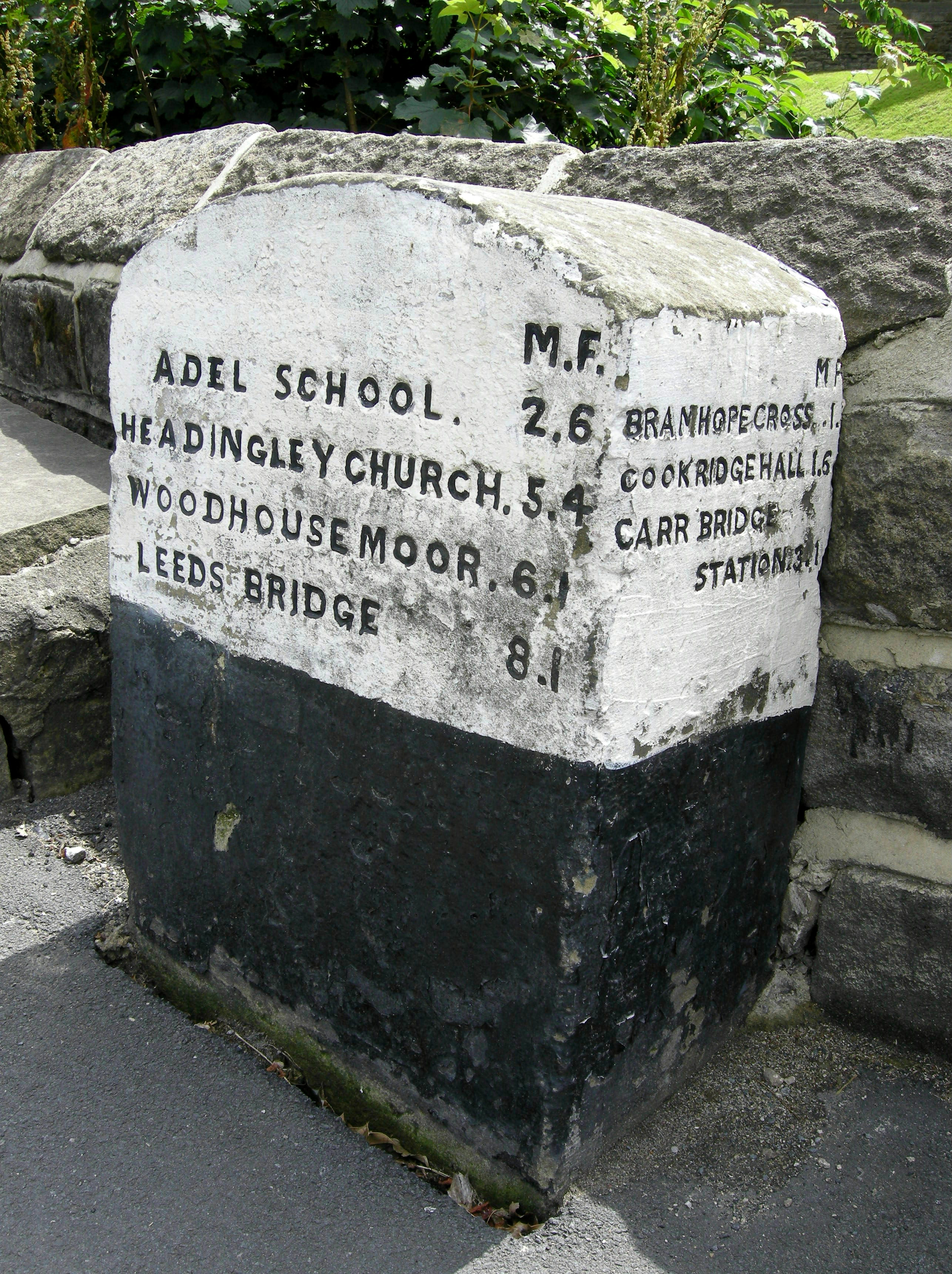 1850 milestone by St Giles Church, Leeds-Otley Road, Bramhope, West Yorkshire, England.